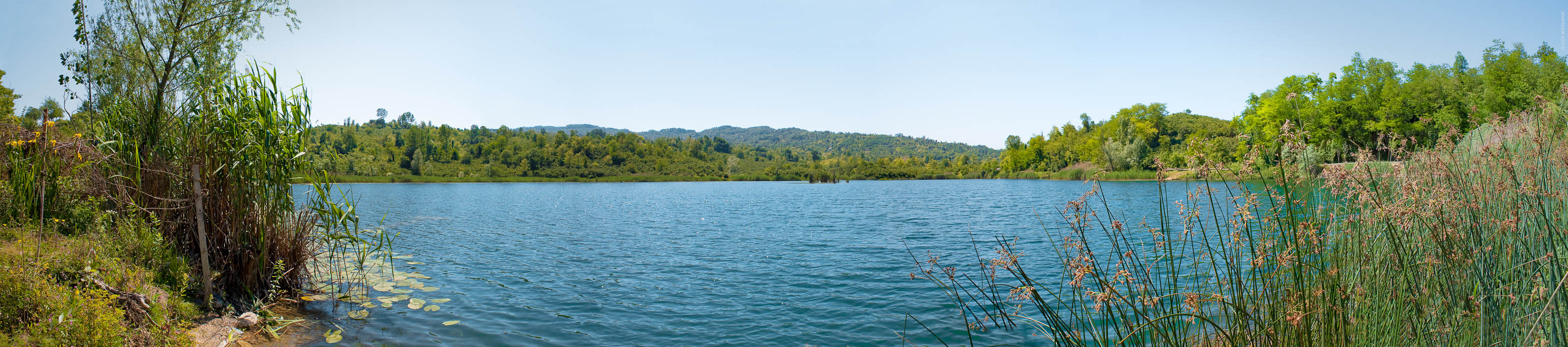 Panorama of Gaga Lake, Fatsa.